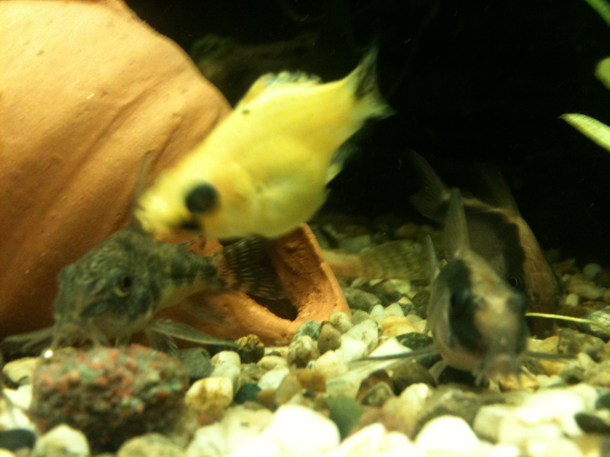 Corydoras and Molly Balloon